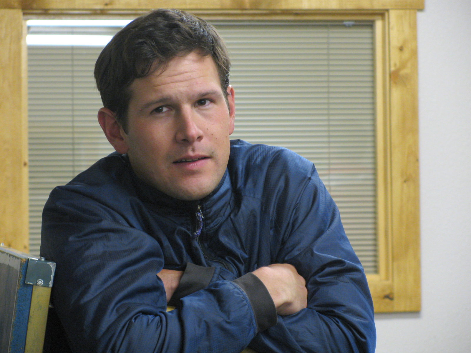 "Andy Skurka, just back from Alaska craziness".